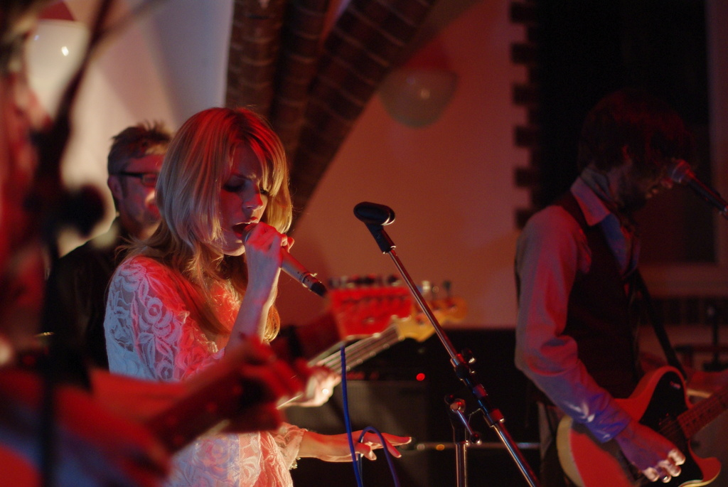 Lucky Soul performing at Indie Pop Days at the Wasserturm Kreuzberg in Berlin, Germany.